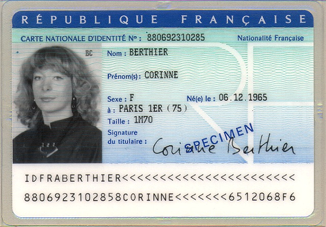 French identity card specimen 1988–1994, similar to the modern identity card (1994–).